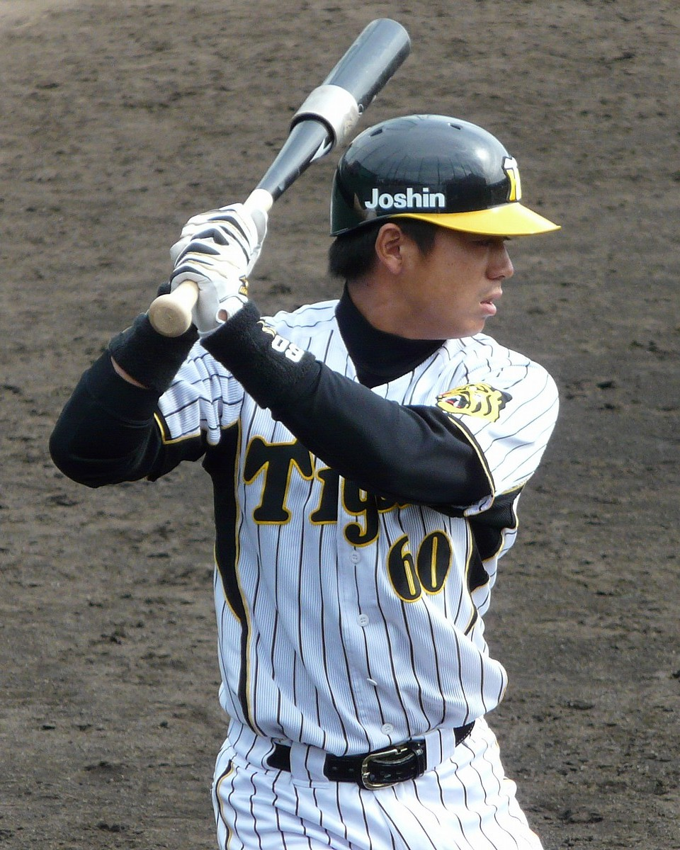 Shinji Komiyama, catcher of the Hanshin Tigers, at Hanshin Naruohama Baseball Ground